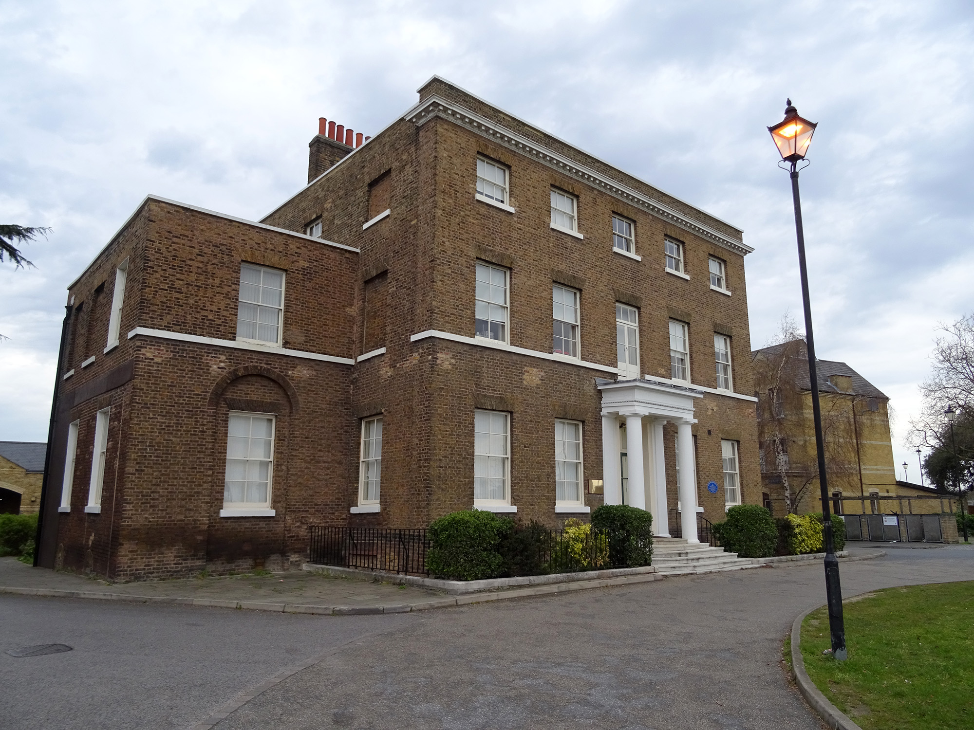 Leytonstone House. Grade II Listed building. 18th century house originally the home of Sir Edward North Buxton. From 1868-1936 Bethnal Green School for the juvenile poor